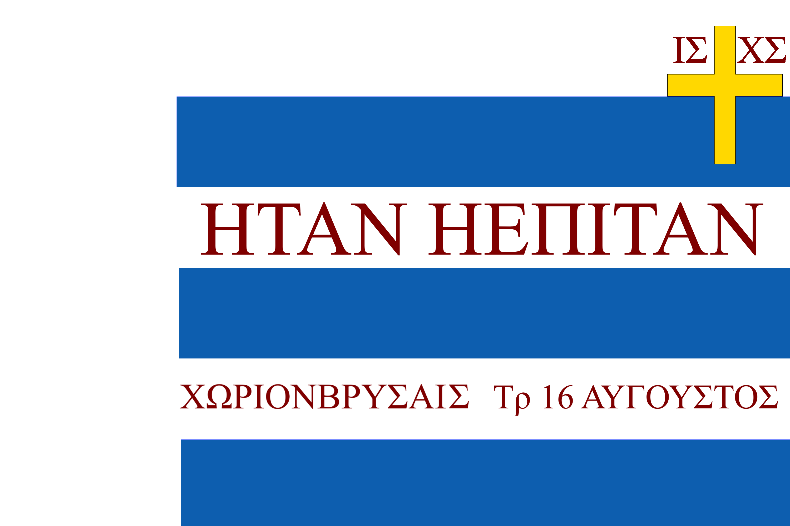 The design of the flag above is a series of 5 stripes, the blue ones only stretching to 4/5 of the flag. The banner contains the words "Itan Iepitai" on the second white stripe, followed by a likely date of the rebellion, August 16, on the third white stripe. On the first two stripes, on the extreme right corner, a Greek cross is displayed.